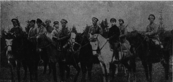 Commanders of the Chinese battalion, 29th division, 3rd army, Eastern front (Red Army). 1918.